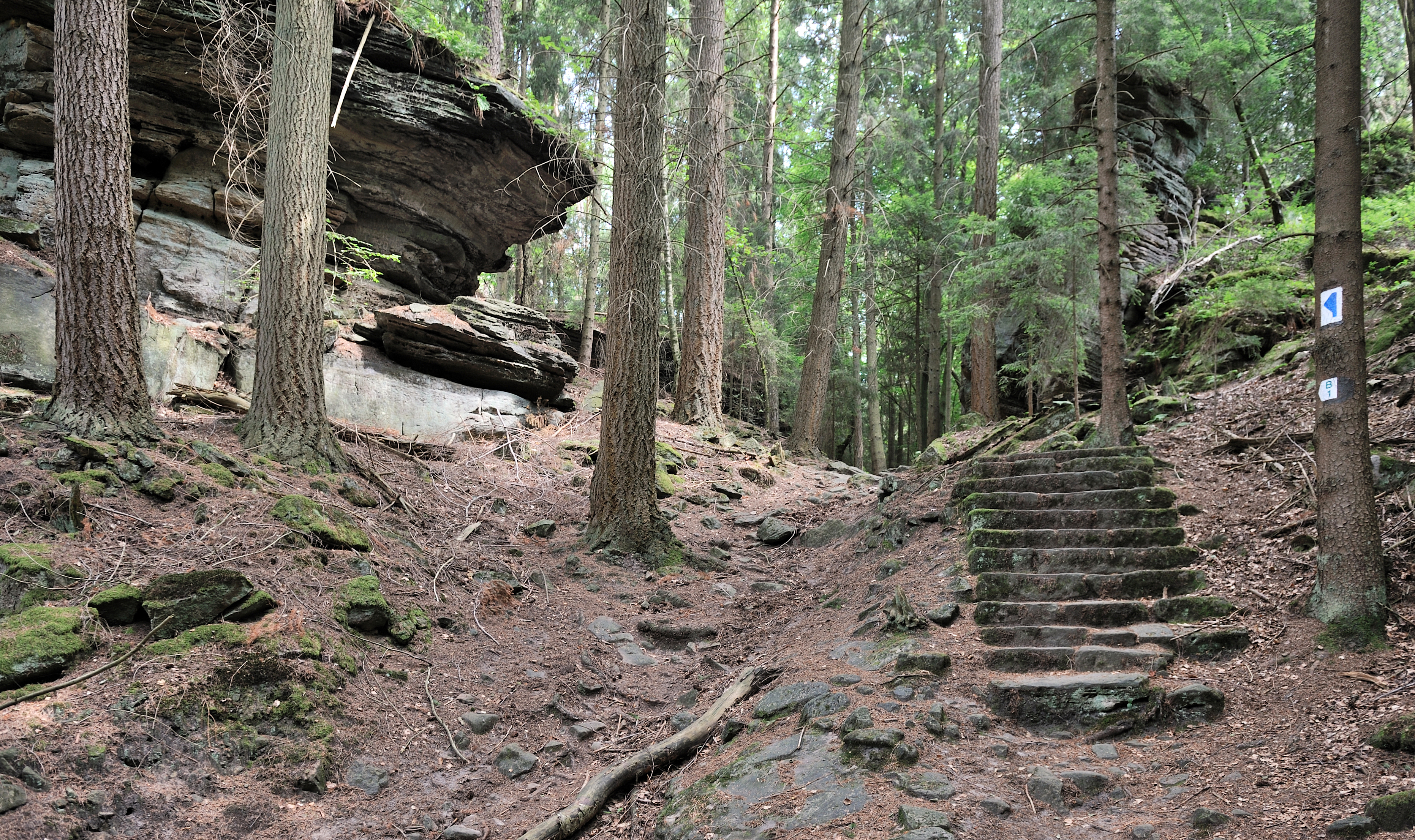 Luxembourg Beaufort: forest reserve (since 2010) 'Saueruecht' in the Mullerthal region (Luxembourg's Little Switzerland).